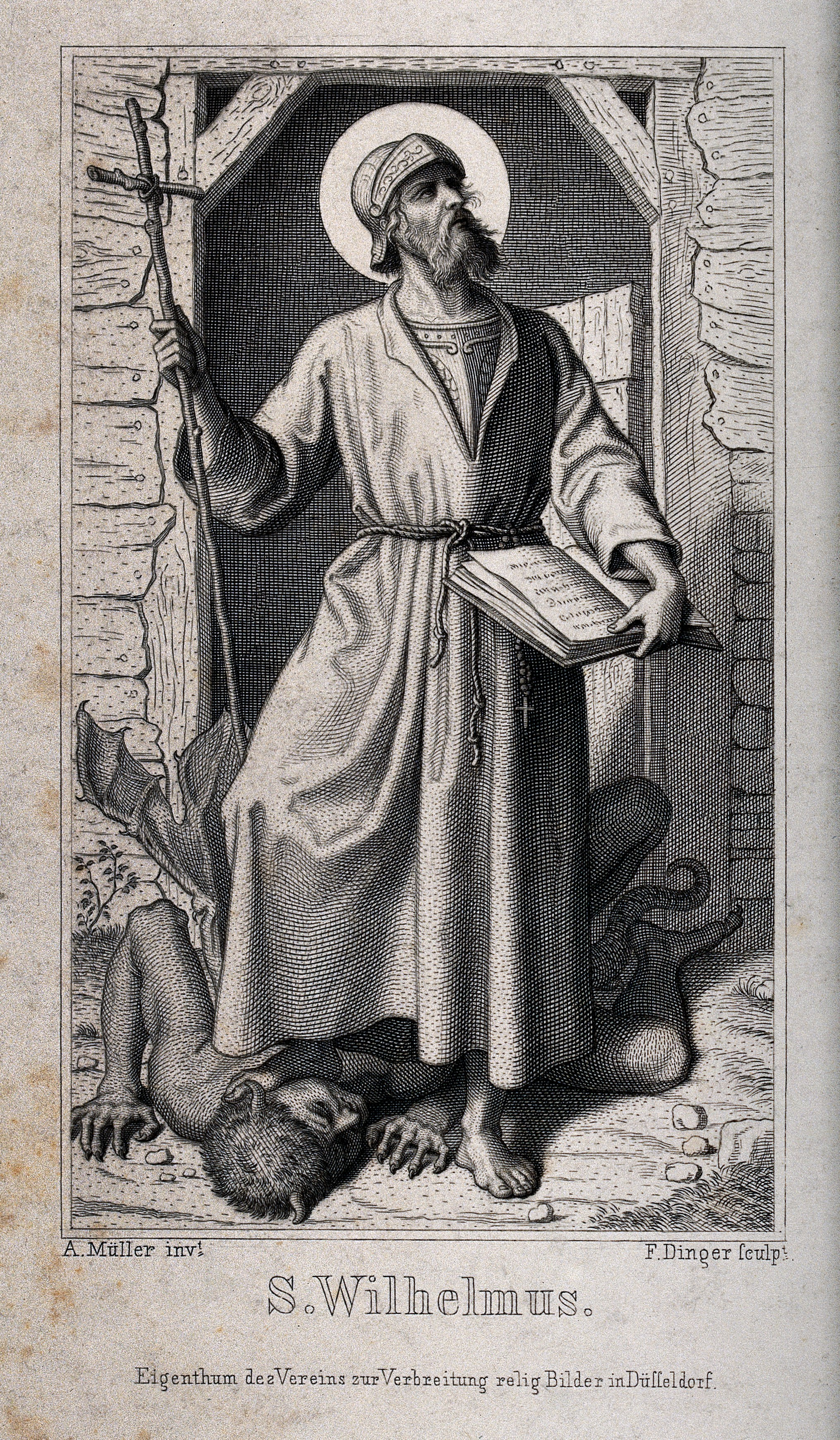 Saint William of Maleval. Often confused and identified with William of Gellone. The armour and the pilgrim's dress in this image relate to the legend of William of Maleval. Engraving by Fritz Dinger after Andreas Johann Jacob Müller. Iconographic Collections